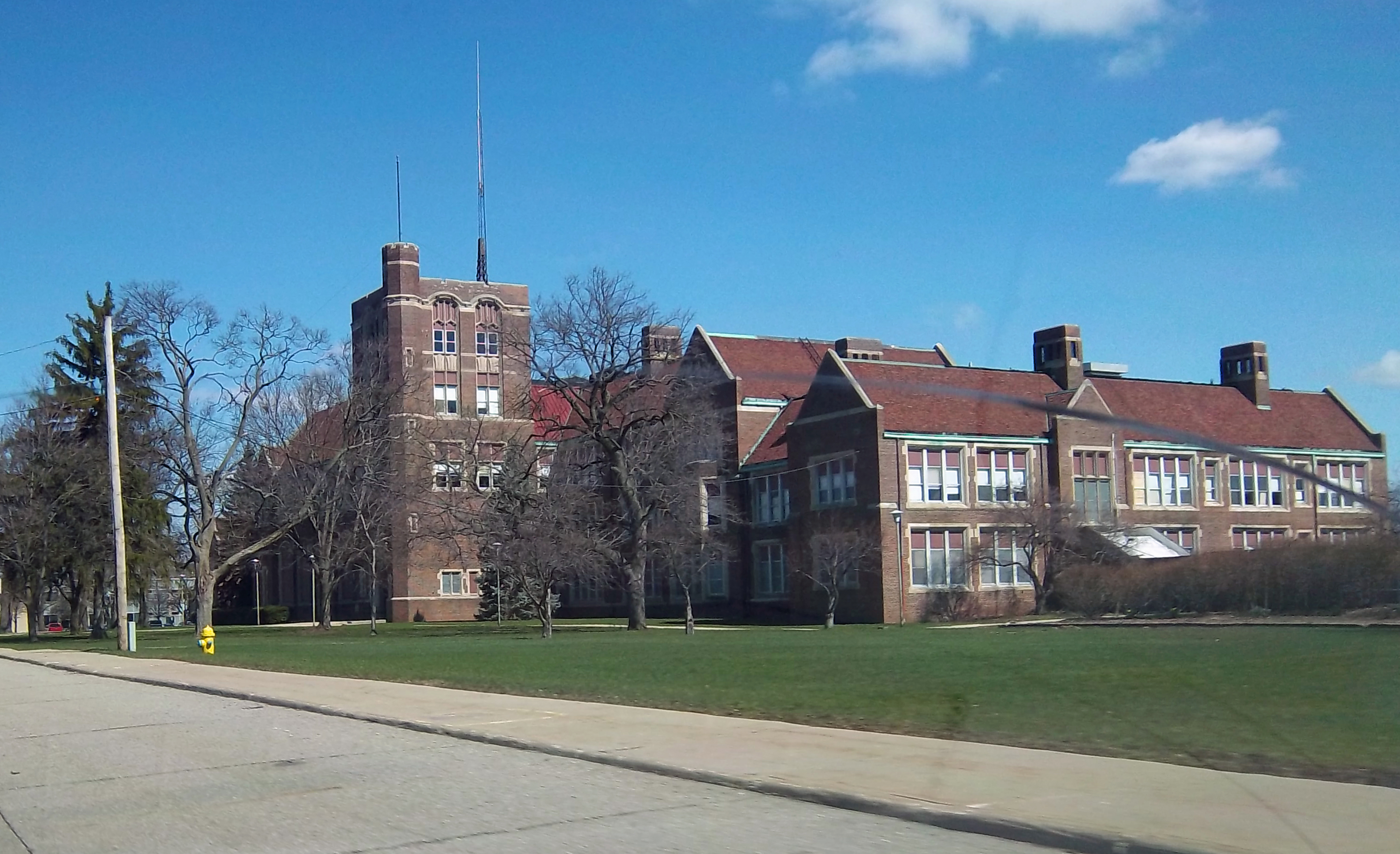 Flint Central High School, built in 1922 as Flint High School. It was renamed Flint Central in 1928 after Flint Northern High School opened. The architects of both schools are Malcomson, Higginbotham, & Palmer. Most of Flint's older school building were designed by these architects. Flint Central High School closed in 2009 due to Flint's declining population and students transferring to charter schools. Not to mention the fact that the Flint Community Schools completely neglected Central's maintenance needs during the school's final 10-15 years.